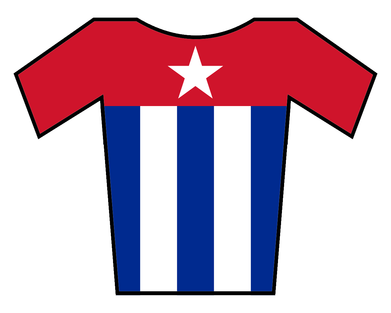 National champion cycling jersey of Cuba